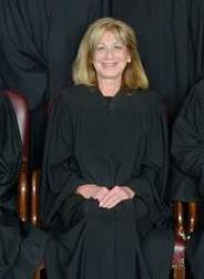 This is a picture of the active and senior judges of the Federal Circuit in early 2016